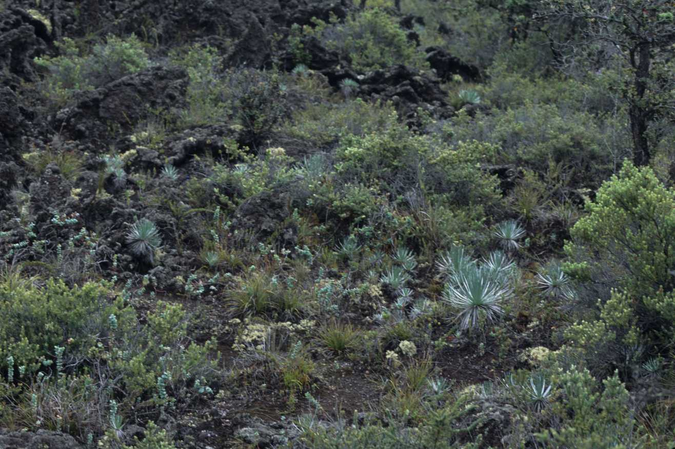 Mauna Loa silversword (Argyroxiphium kauense) habitat, Kahuku, Hawaii Volcanoes National Park. Photo by Karl Magnacca.